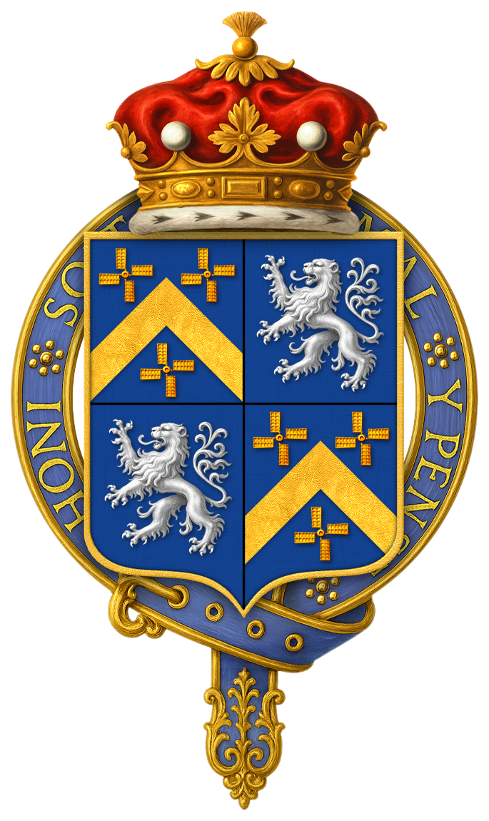 Garter encircled shield of arms of Robert Offley Ashburton Crewe-Milnes, 1st Marquess of Crewe, KG, as displayed on his Order of the Garter stall plate in St. George's Chapel.